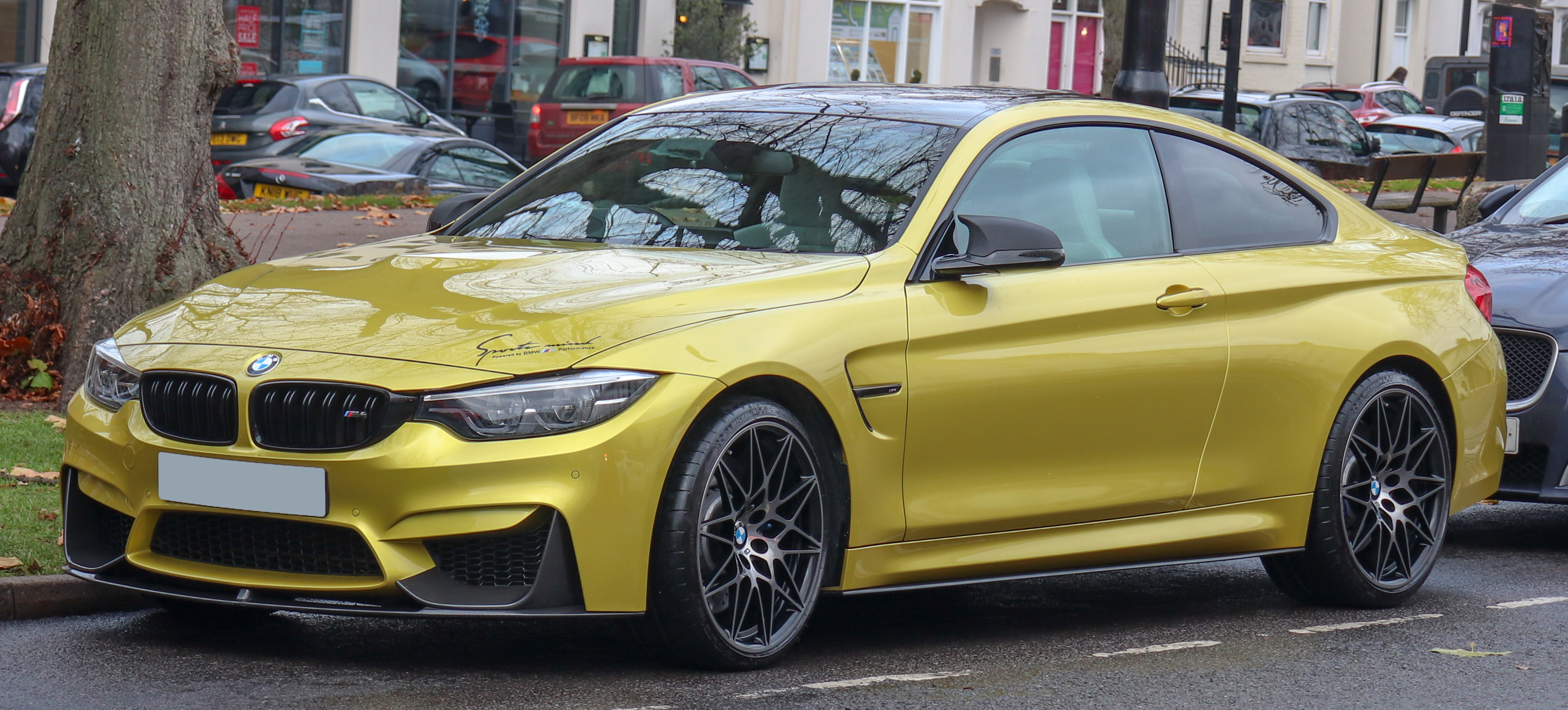 2017 BMW M4 Competition Package 3.0 Front Taken in Leamington Spa